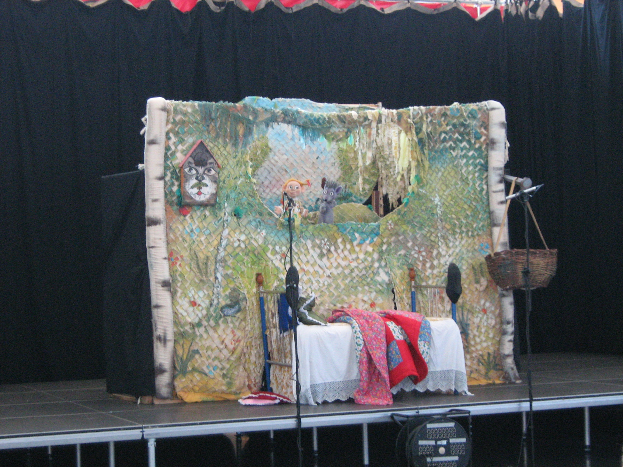 The troupe of the Kstovo Puppet Theatre performing at the MEGA shopping mall in Fedyakovo